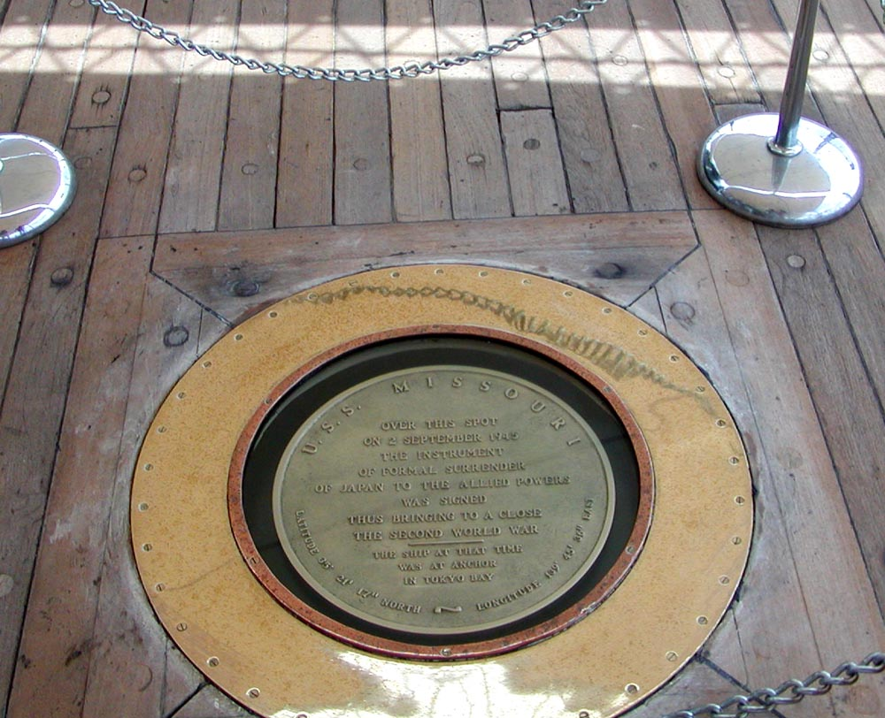 Photo of USS Missouri (BB-63) surrender plaque